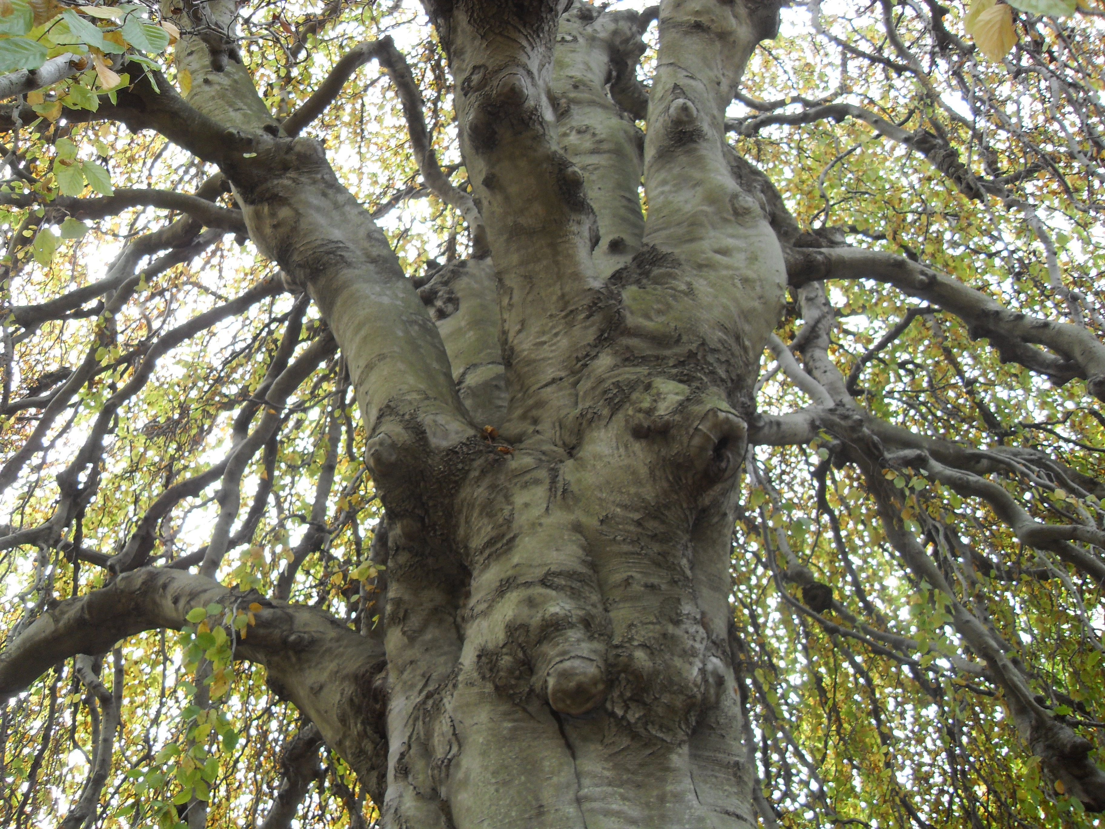 Stem of the weeping beech, Chateau-sur-Mer, Newport, RI